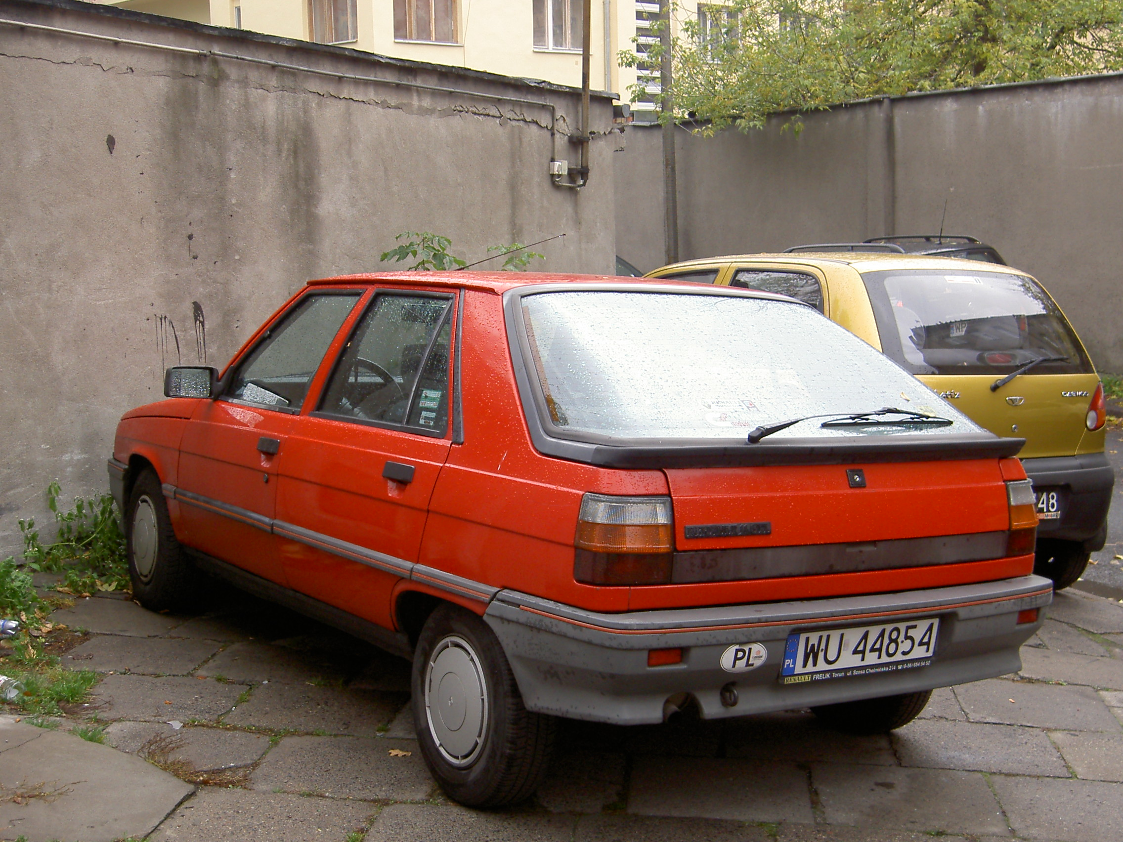 Renault 11 car seen in Warsaw. Picture taken by me in october 2006.